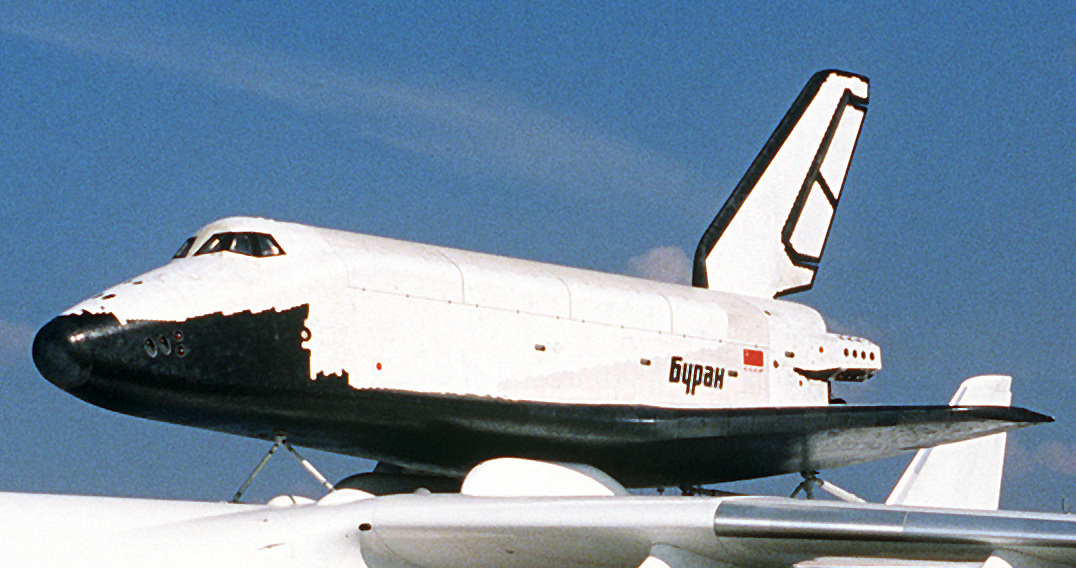 Visitors at the 38th Paris International Air and Space Show at Le Bourget Airfield line up to tour a Soviet An-225 Mechta aircraft that is carrying the Space Shuttle Buran on its back.